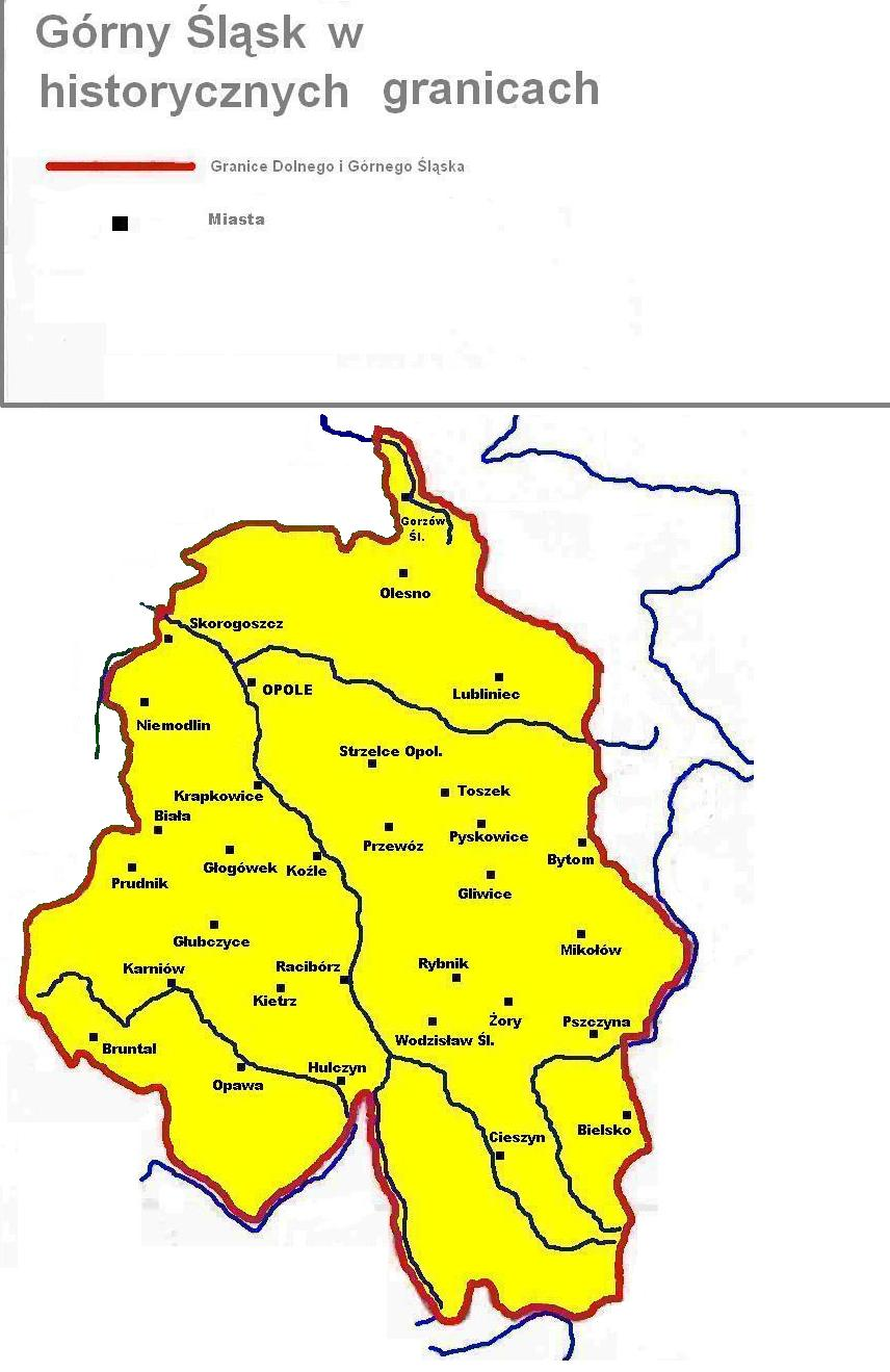 The historical boundaries of Upper Silesia